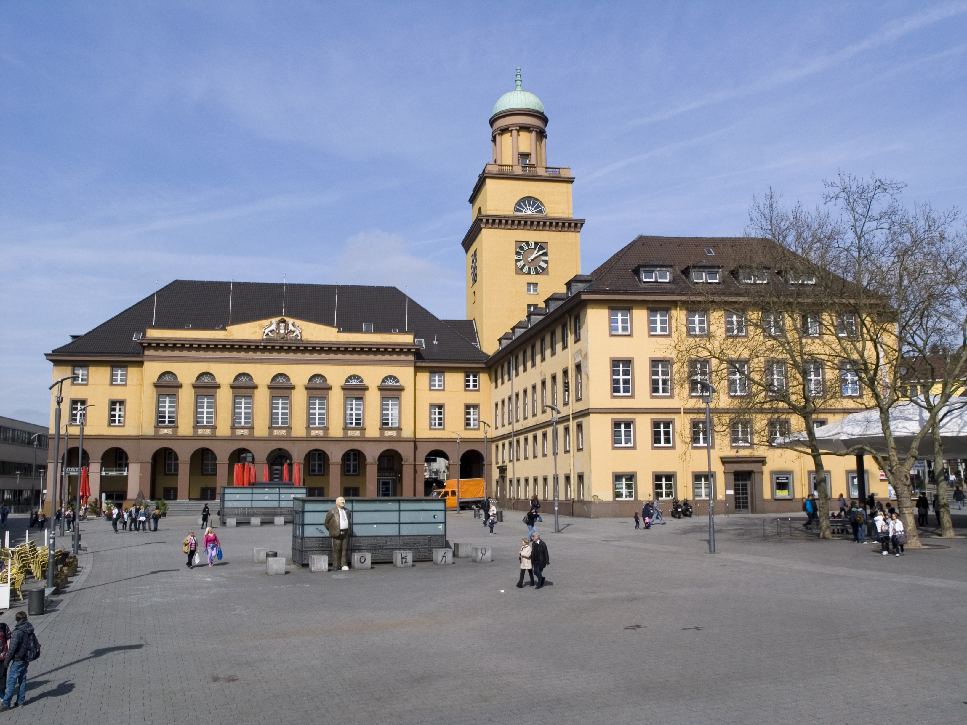 town hall of Witten